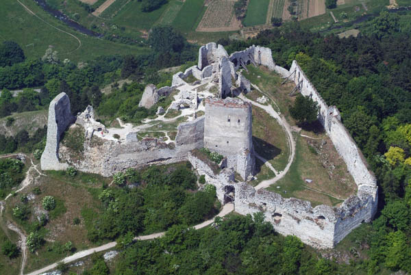 Čachtice Castle, Slovakia, aerial photography